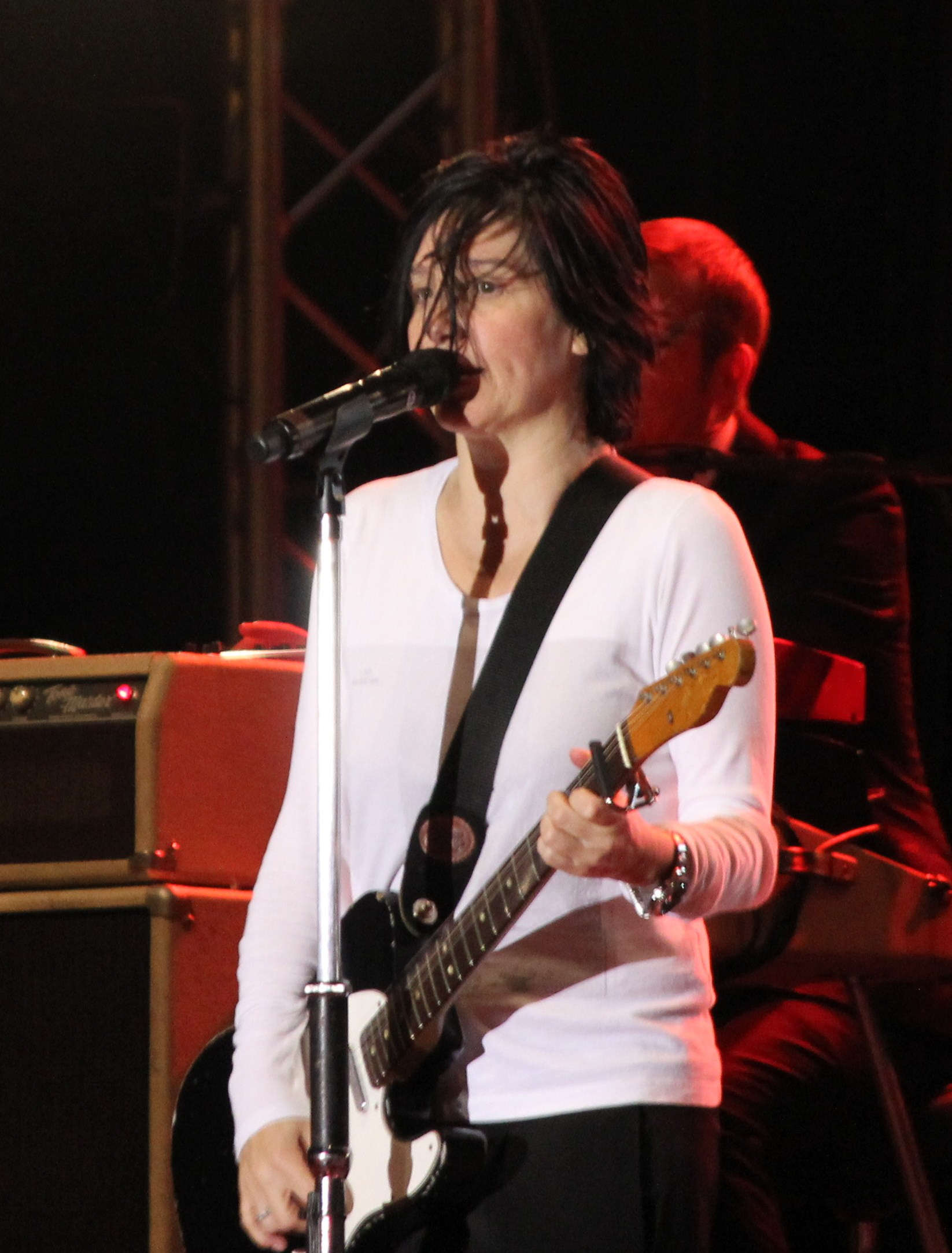 Texas band playing at Keroman fishing port in Lorient during the 2011 edition of the festival interceltique.